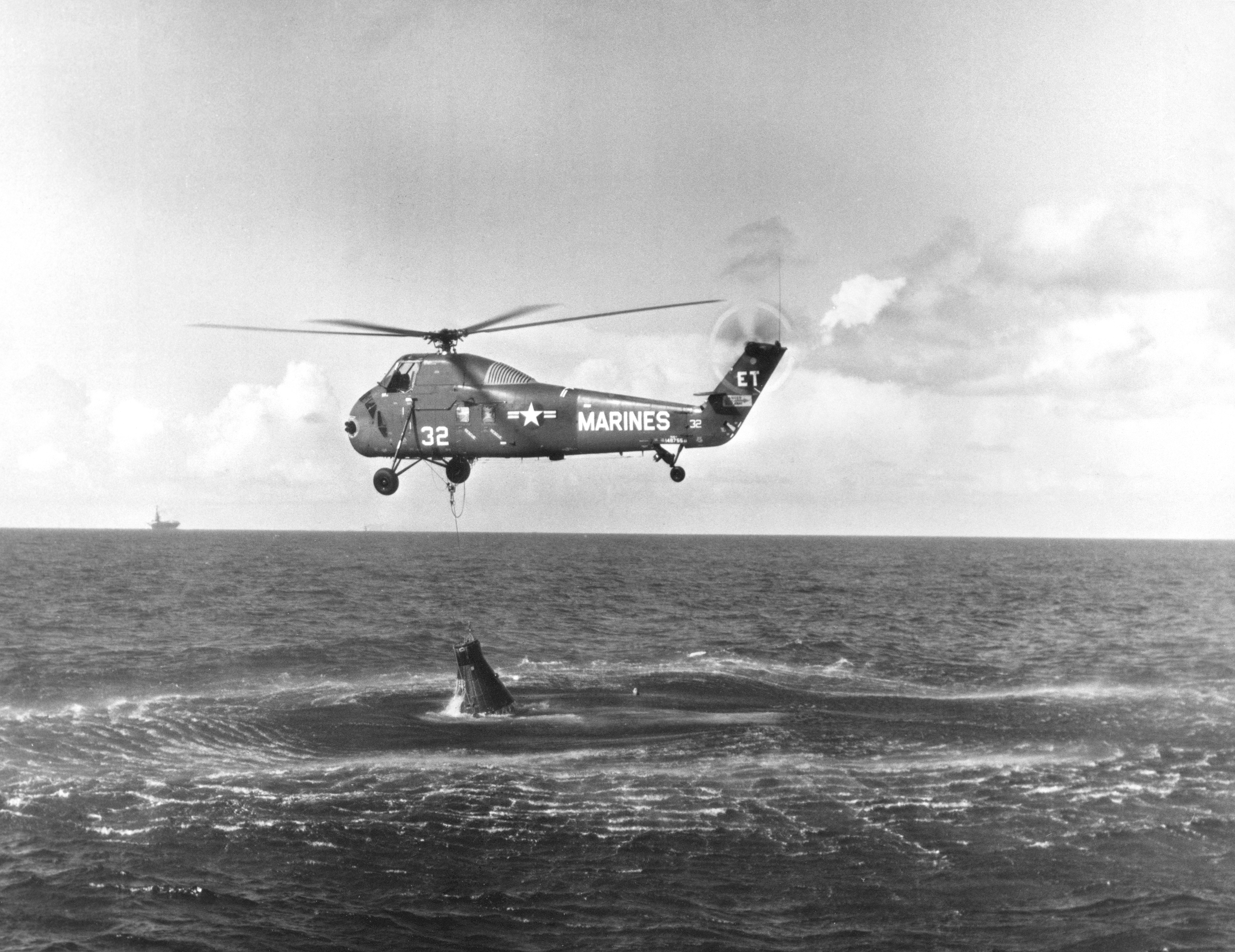 After the hatch of "Liberty Bell 7" opened prematurely, gallons of seawater entered the spacecraft. A helicopter recovery team attempted to empty the water, as seen in this photo. Seconds after this picture was taken, the Marine helicopter dropped the spacecraft because it was too heavy to continue lifting, and the capsule sank to the ocean floor. Astronaut Virgil I. Grissom was still in the water at the time, and his head is seen bobbing next to the capsule. Grissom almost drowned, but was rescued by a second helicopter before his suit filled up with too much water. The helicopter is a Sikorsky HUS-1 Seahorse of Marine medium transport squadron HMR(L)-262 Det. Flying Tigers. The recovery ship USS Randolph (CVS-15) is visible in the distance. The Liberty Bell 7 was eventually recovered from 15,000 feet (4,600 m) below the surface of the Atlantic on July 20, 1999.